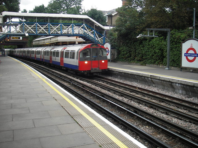 North Ealing station, Piccadilly Line. The train is on the line to Uxbridge and Rayners Lane.